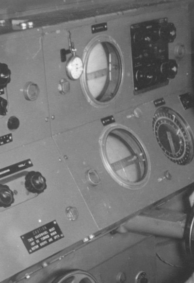 An interior shot of the GL Mk. III(B) radar, taken by Bill Wallace. The two displays in the center of the image show the range to a selected targets, the upper display showing everything within 32,000 feet, and the lower one showing the 1.8 km within a selected area on the upper display. The shaft protruding from the panel in the lower right sets a bias control in the electronics which allows the operator to line up the target blip with a wire stretched across the front of the lower display, which can be seen glinting in this photo. The wheel in the extreme lower left is used to rotate the antenna to track in azimuth, a similar station off-frame to the left controls the altitude. The GL Mk. III(B) was a Gun Laying radar, which provided highly accurate angle and range information on a single target. This data was sent, sometimes fully automatically, to a mechanical computer known as a "predictor", which used this information to calculate a location in space where the target aircraft would be in the future. The output of the predictor drove mechanical pointers that were displayed on a number of Anti-Aircraft Artillery (AAA) guns. Operators of the guns simply had to operator their controls so their own pointers were on top of the ones from the predictor, and load shells. Modern systems automate this completely. The Mk. III(B) was the British version of the Mk. III, there was also a similar Canadian version, the Mk. IIIc. Both would be paired with a longer-range, wider-pattern radar to pick up the targets, which would then be tracked by the GL radar sets.